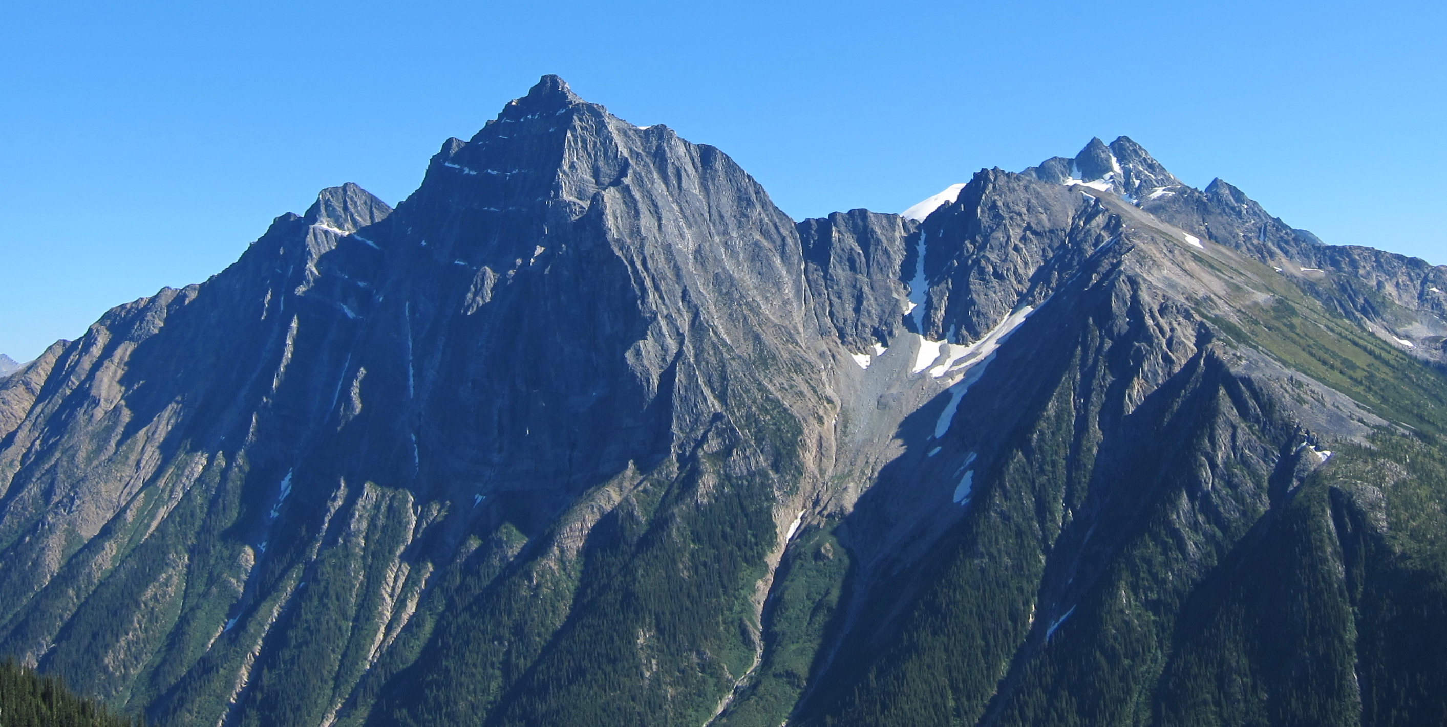 Mount MacDonald in the Selkirk Mountains of British Columbia, Canada.